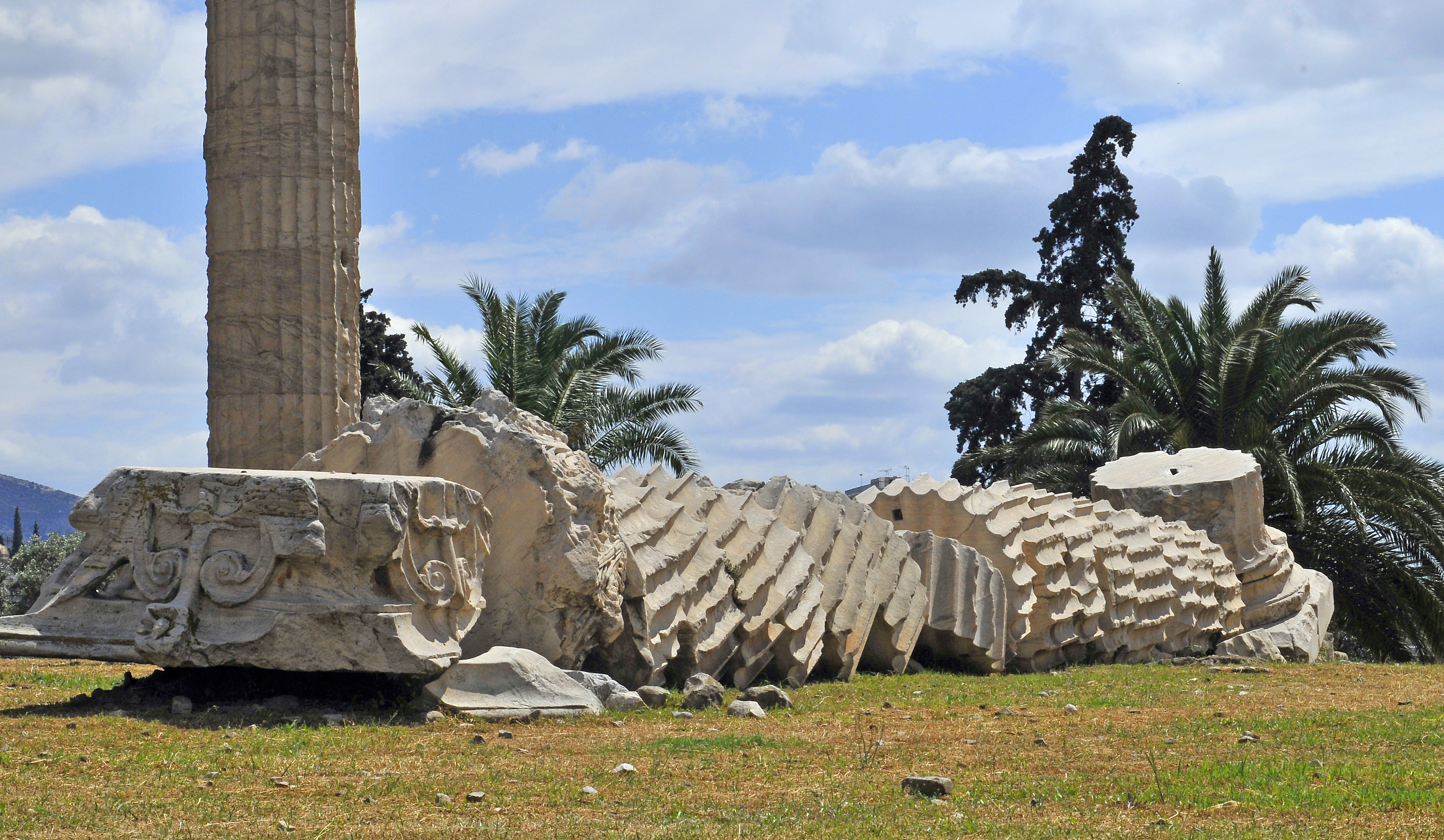 Fallen column; Temple of Zeus. Athens, Attica, Greece